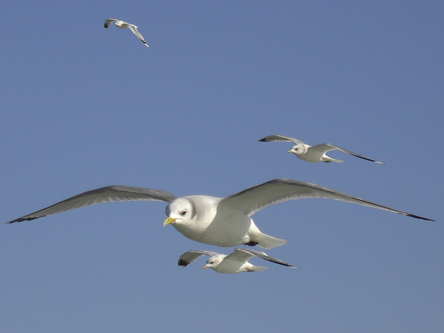 Kittiwake on the Belgian Continental Shelf.